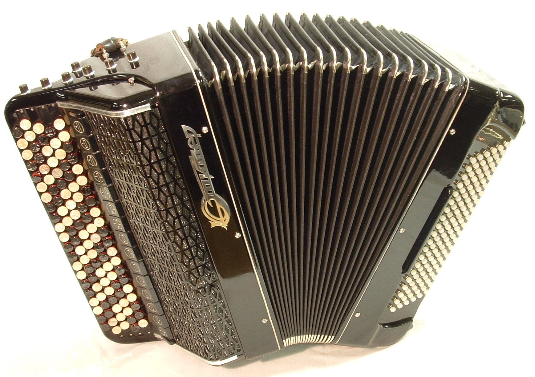 Russian Bayan Accordion built in the U.S.S.R. by Jupiter Company. Instrument from the collection of A World of Accordions Museum in Superior, Wisconsin, USA. Photographed by Henry Doktorski.